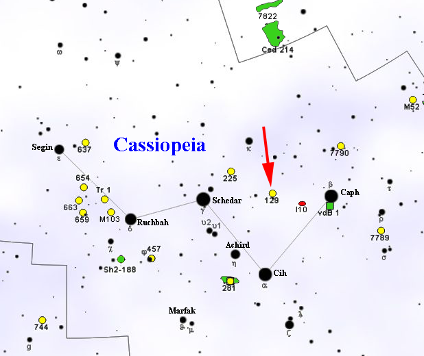 Map of NGC 129